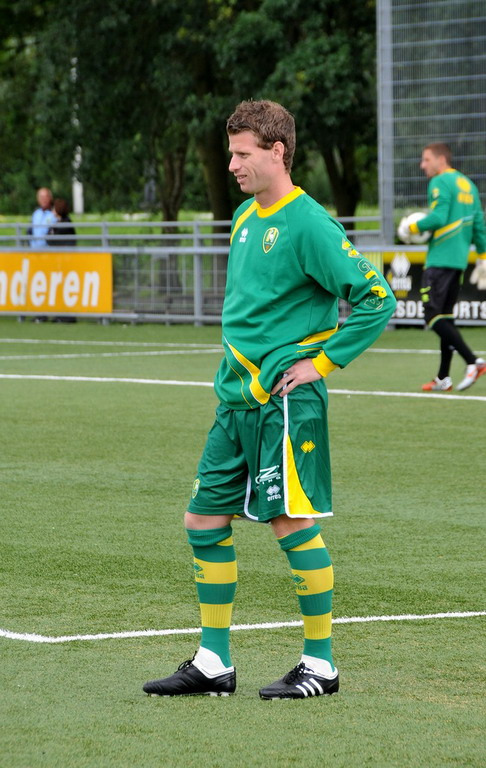 Marc Höcher, Dutch football player.